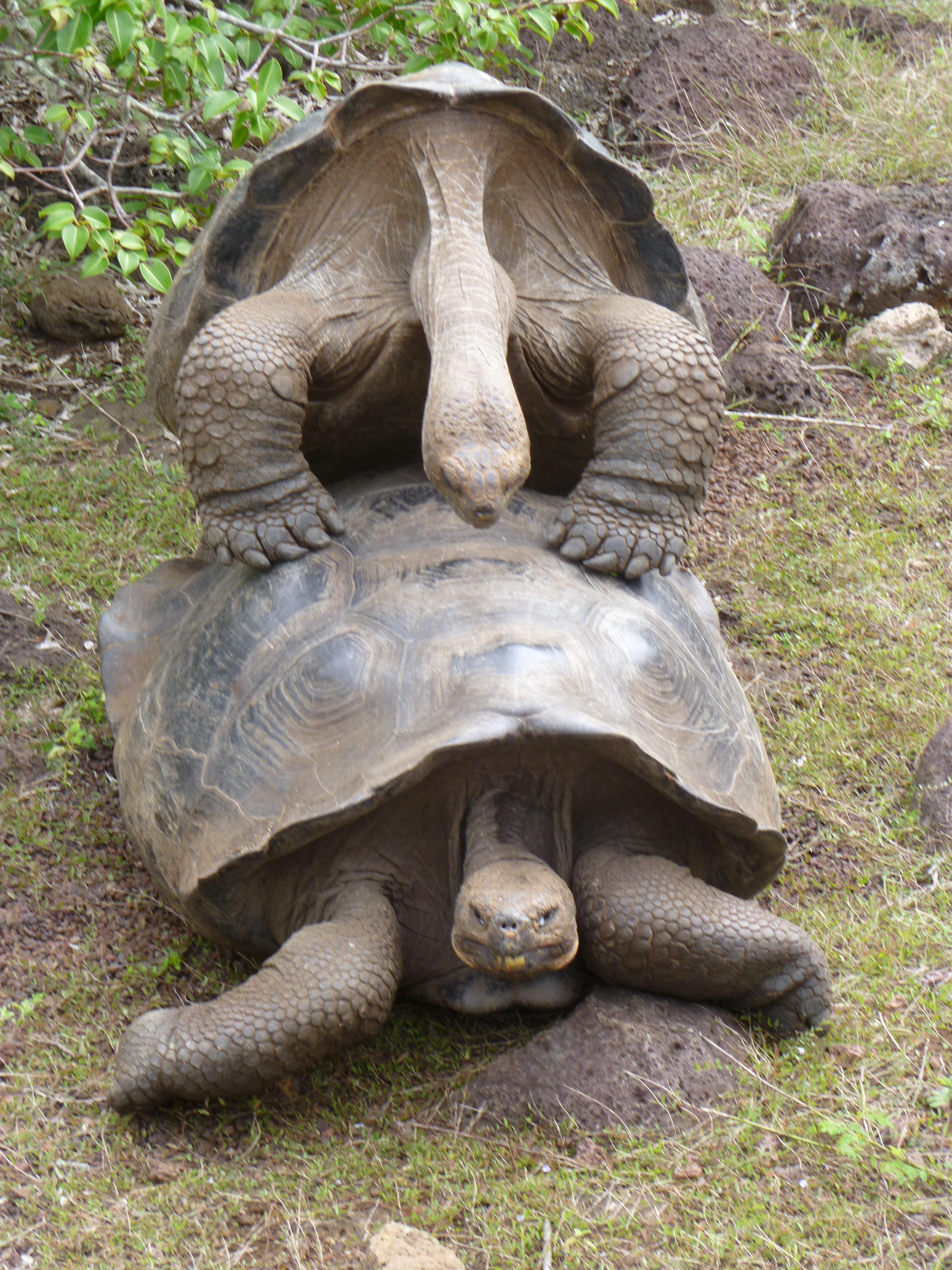 Galapagos Tortoises mating